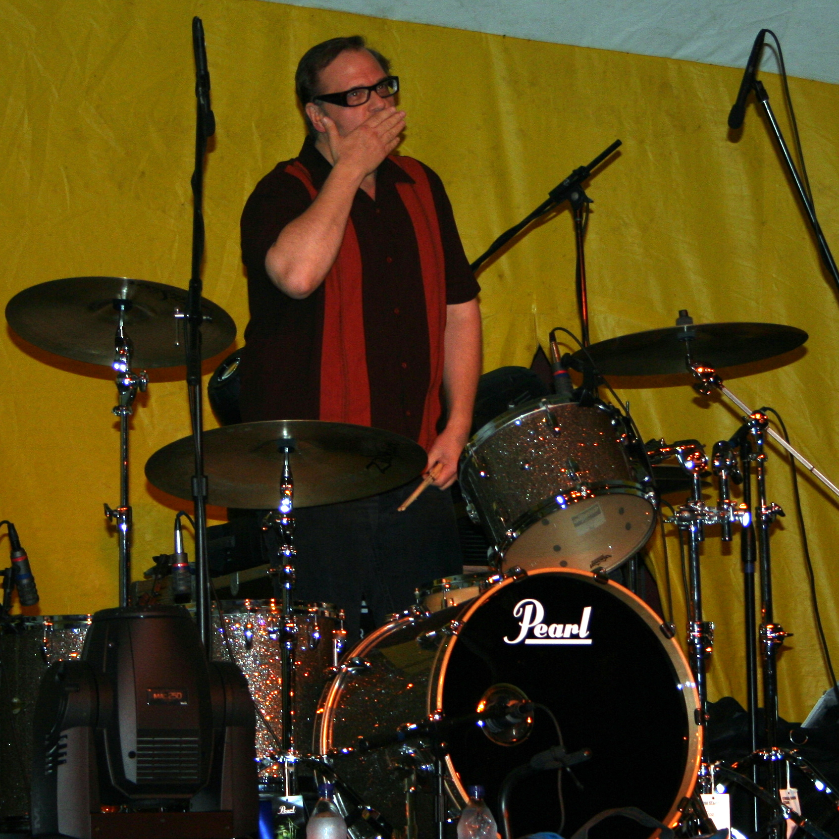 Drummer Dennis Diken responds to applause after recognition from other members of the Smithereens at an outdoor concert at the Mayo Civic Center in Rochester, Minnesota